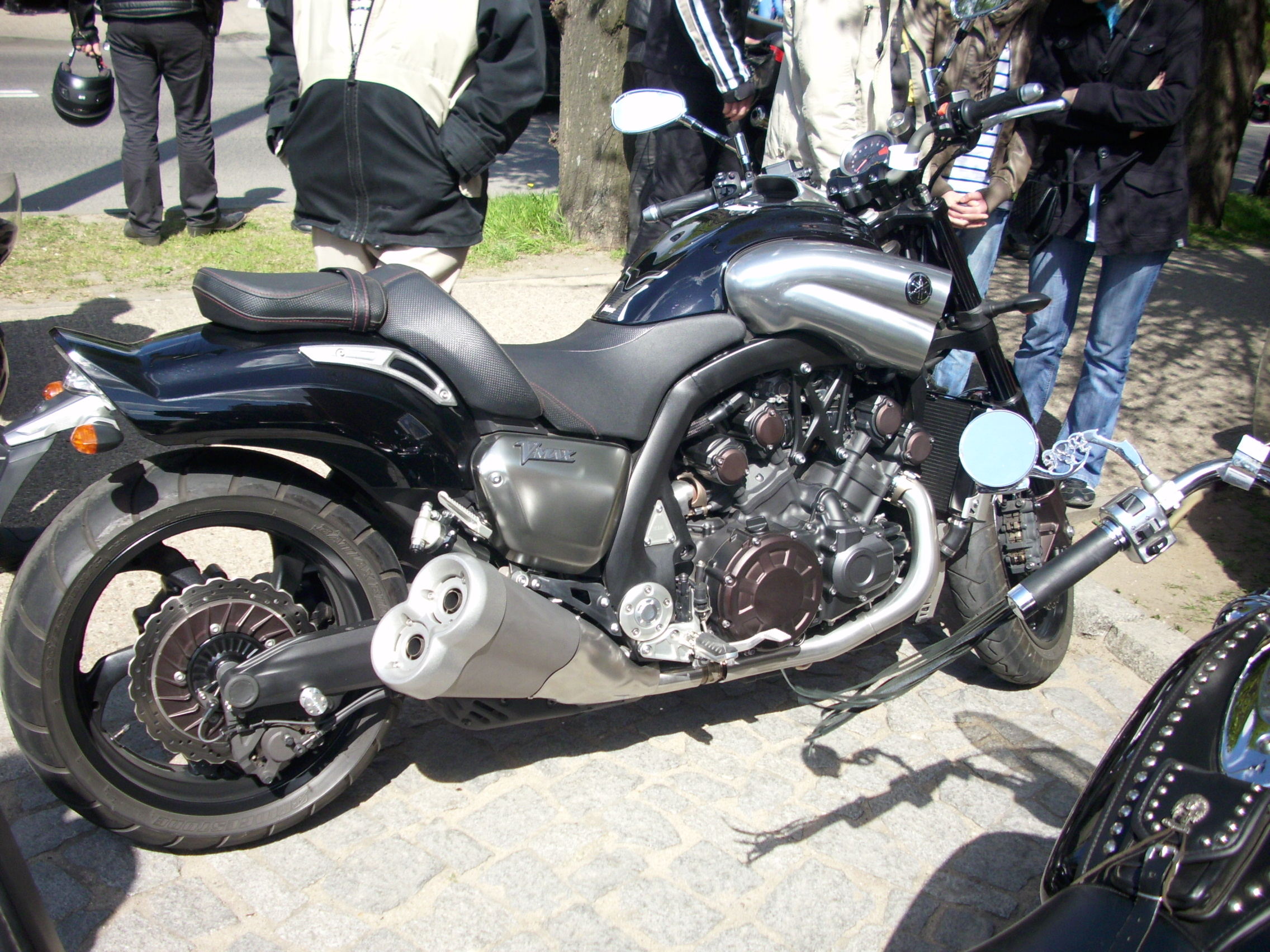 2010 Yamaha Vmax